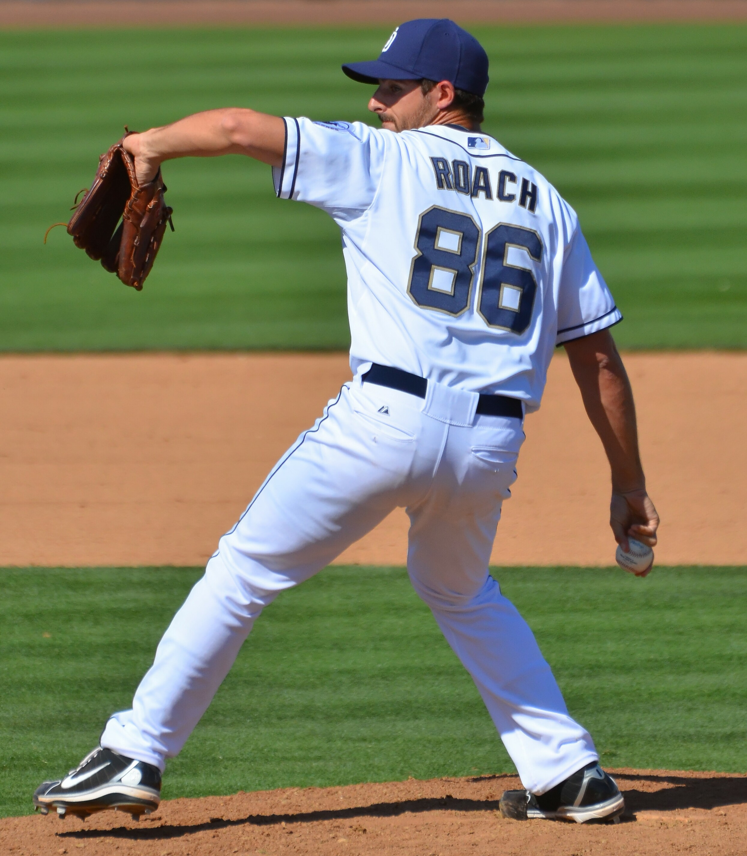 Donn Roach